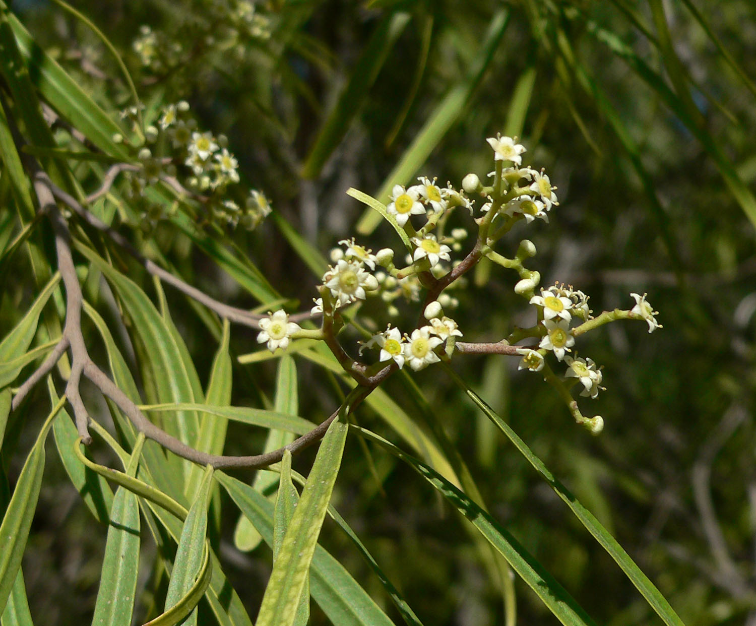 Geijera parviflora at the Springs Preserve garden, Las Vegas, Nevada